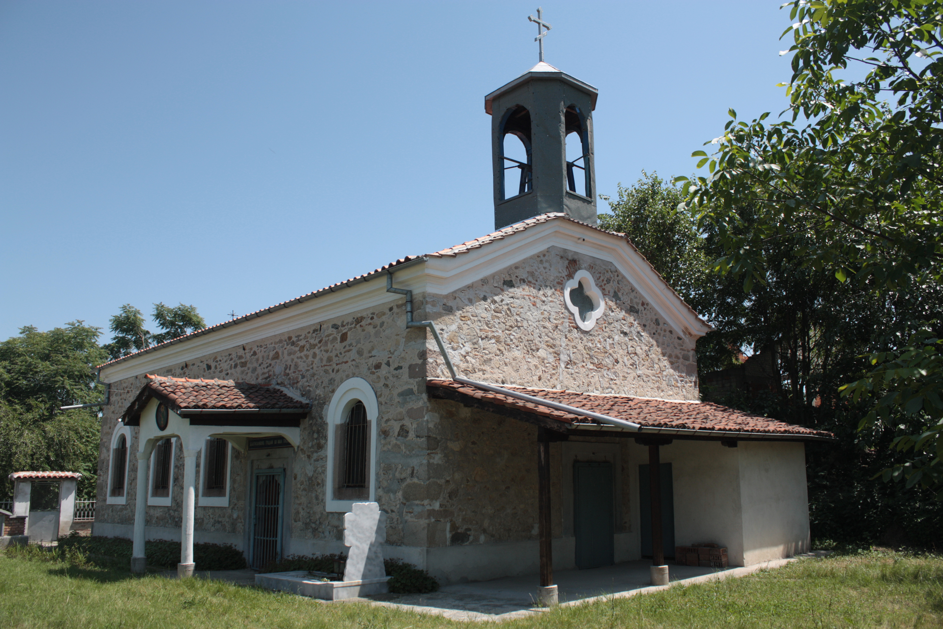 Orthodox Saint Demetrius Church in Tsereteli village, Bulgaria